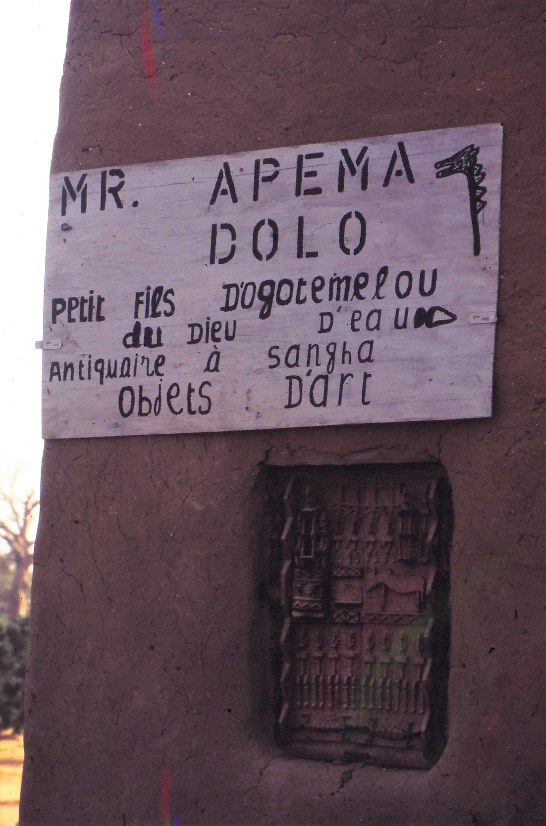 Inscription on a wall. The art dealer is the grandson of a famous Dogon, Sangha Mali, 1990. The text refers to the book by Marcel Griaule Dieu d'eau : Entretiens avec Ogotemmêli (1948).